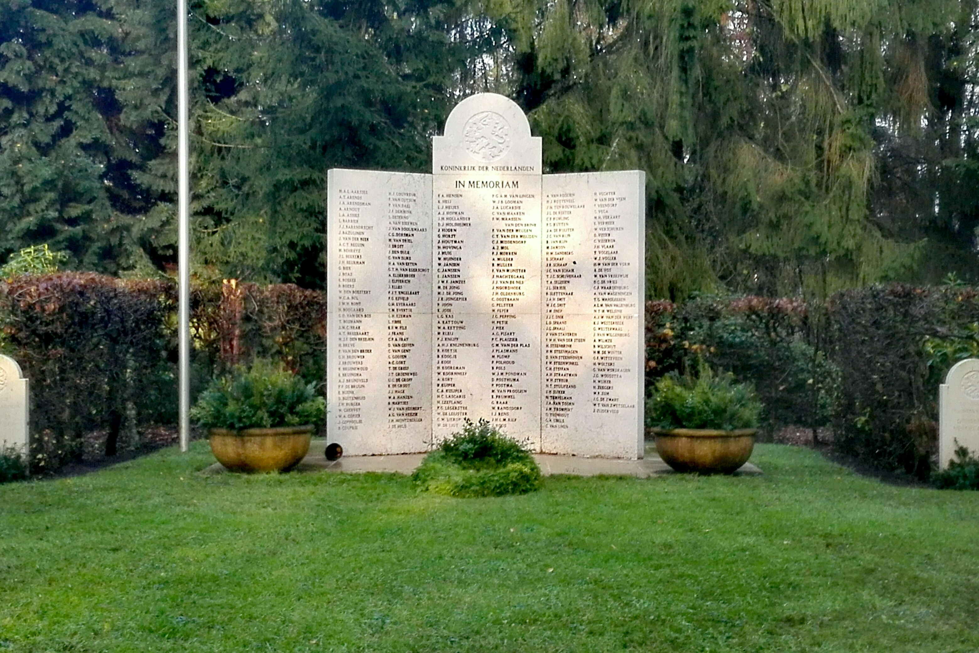 Nederlands Ereveld Lübeck within Vorwerker Friedhof. Monument with three tables containing the names of 242 further Netherlanders who found death in World War II.